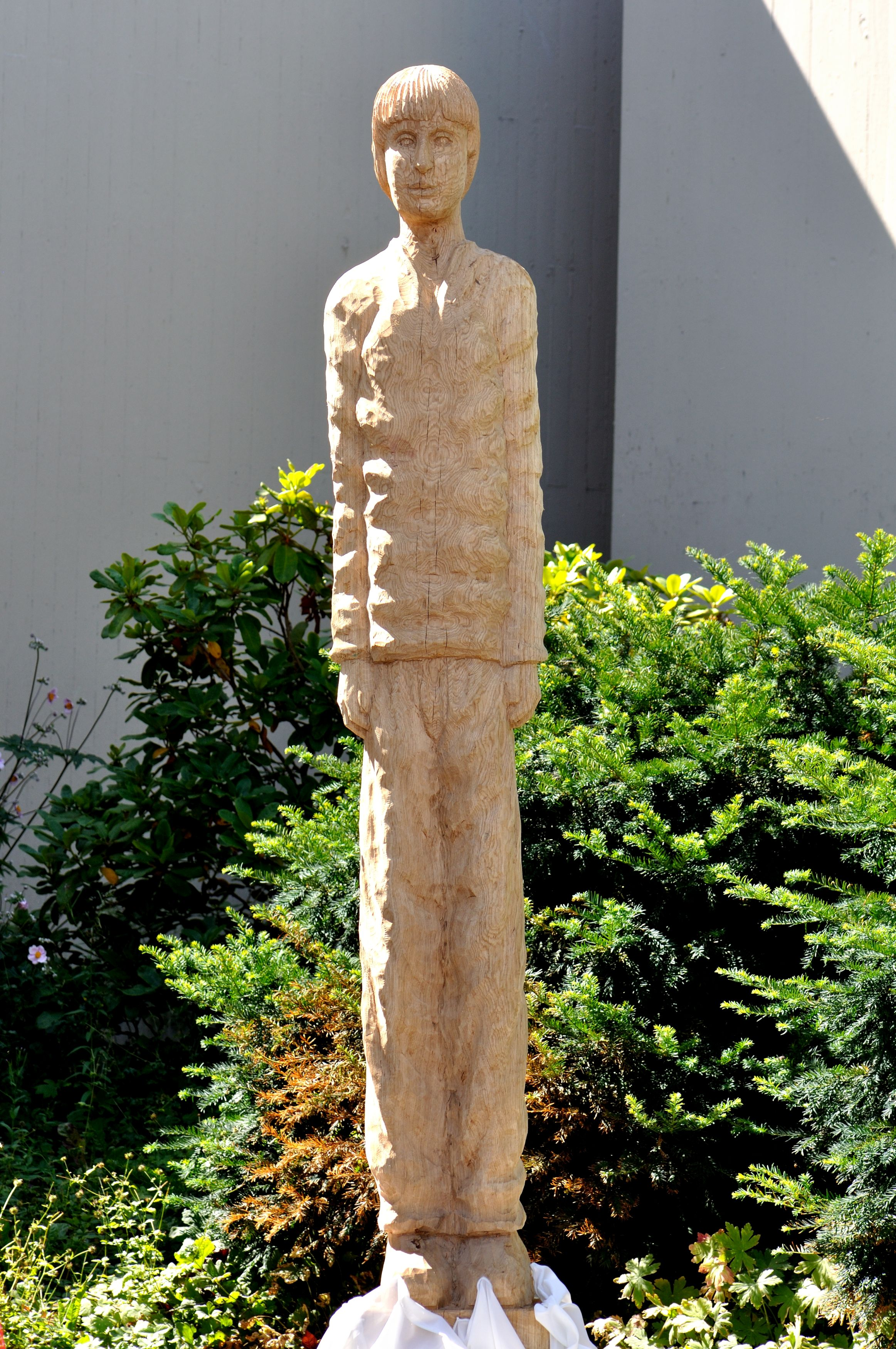 Anton Köhler, Sinto, born 1932 in Nürtingen, murdered 1944 in Auschwitz-Birkenau, as "guard of memory" for the Porrajmos and the victims of the Nationalsozialismus in Nürtingen. Sculptor: Robert Koenig, project Odyssey, Foto: Manuel Werner, Nürtingen